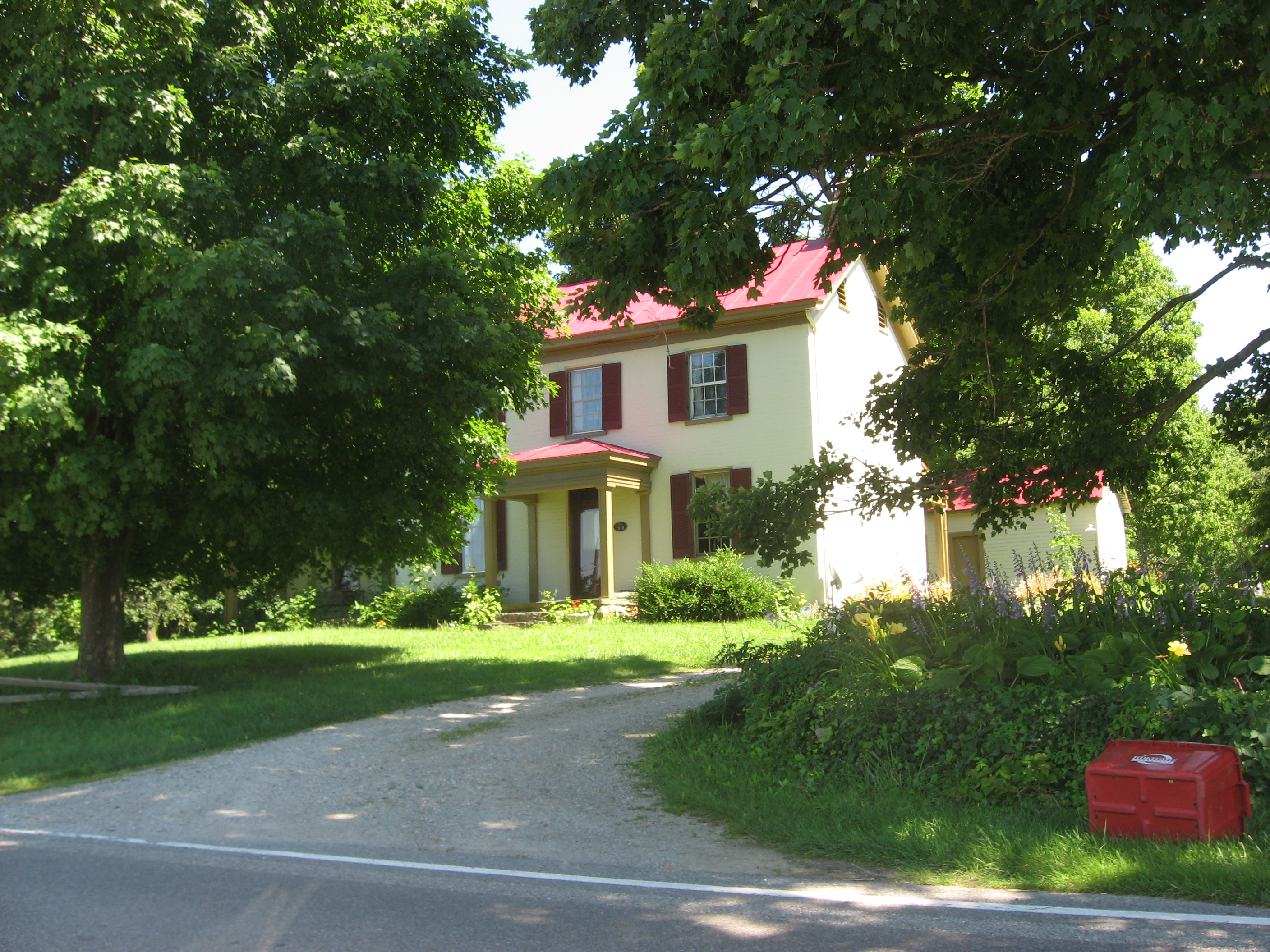 Front of the Moses McKay House, located at 1818 New Burlington Road east of Waynesville in Wayne Township, Warren County, Ohio, United States. Built in 1818, it is listed on the National Register of Historic Places.